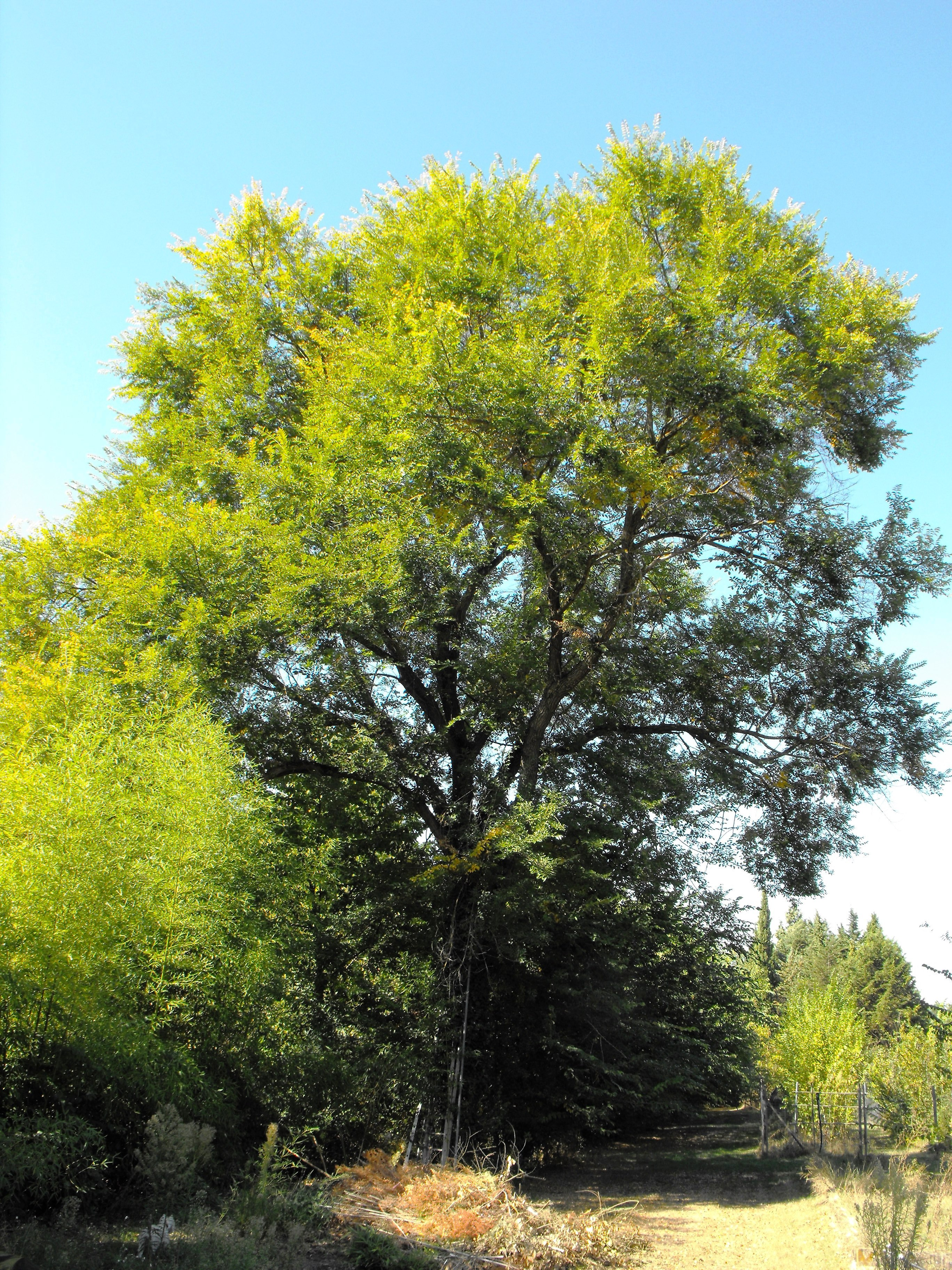 Ulmus 'Sapporo Autumn Gold' growing at the Istituto per la Protezione delle Piante nursery at Antella on the outskirts of Florence, Italy. The tree is believed to be the largest specimen in Europe (2011).